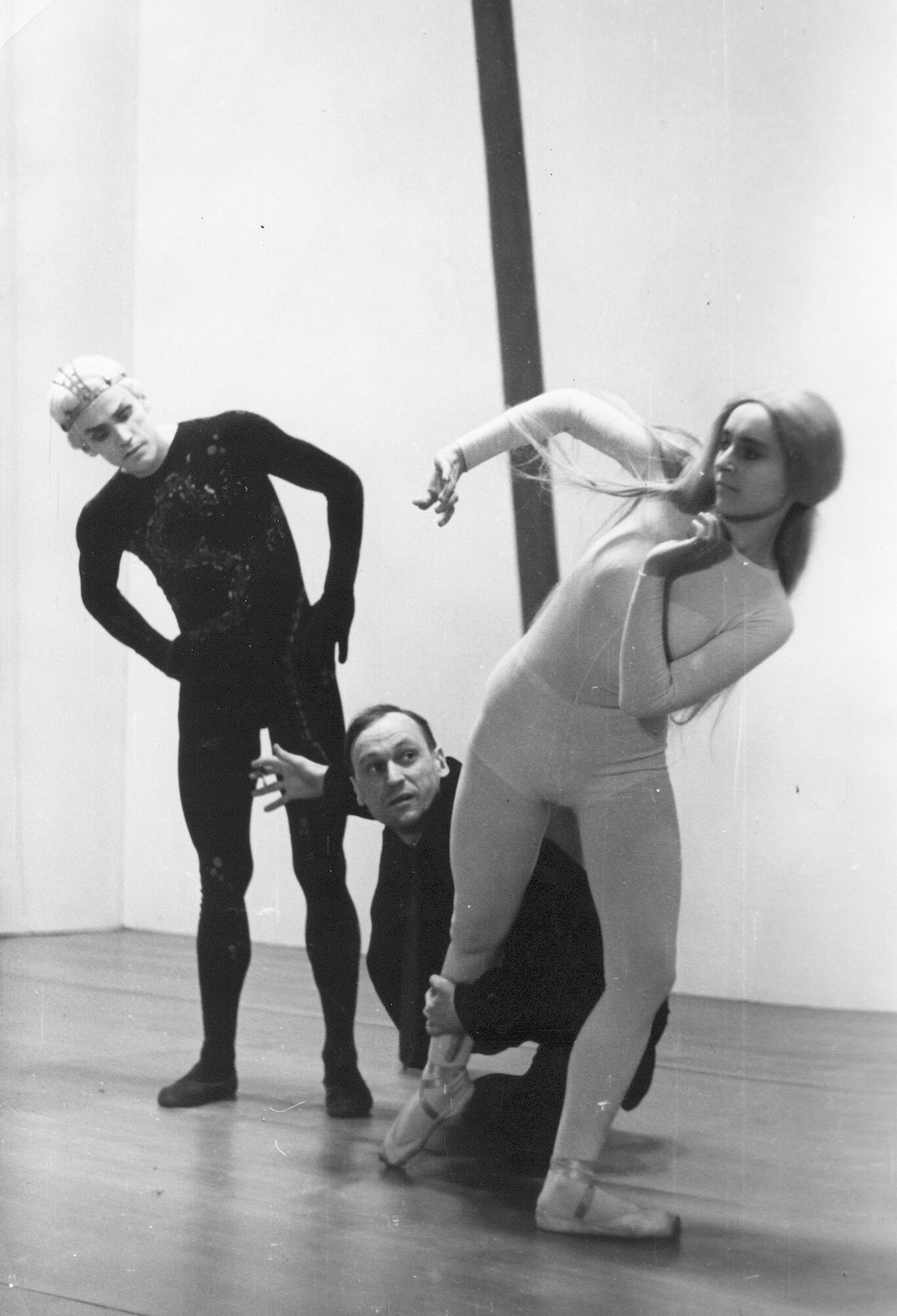 Vytautas Grivickas